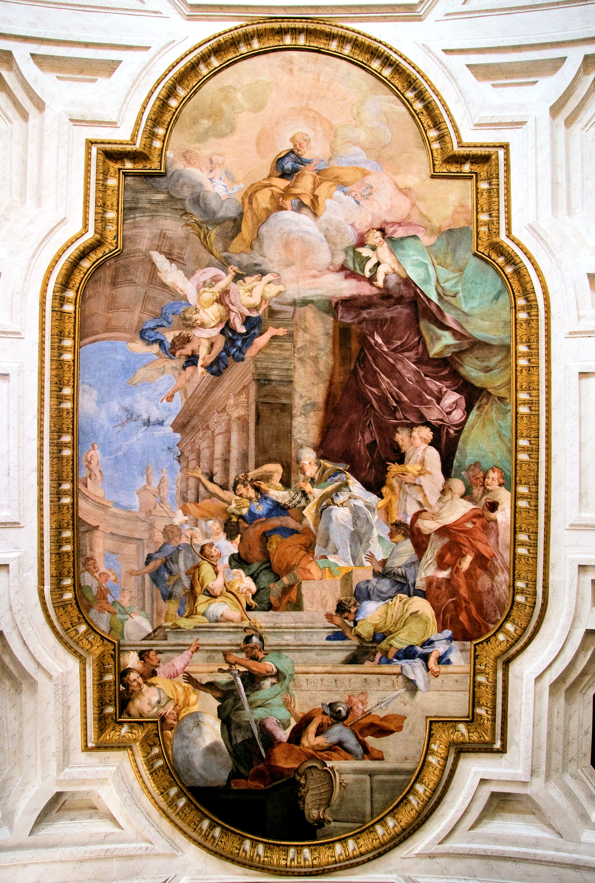 San Pietro in Vincoli - 18th century lacunar ceiling, frescoed in the center by Giovanni Battista Parodi, portraying the Miracle of the Chains (1706).